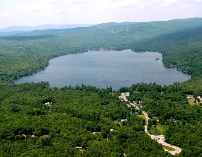 A bird's-eye view photo of Elkins, New Hampshire and Pleasant Lake.